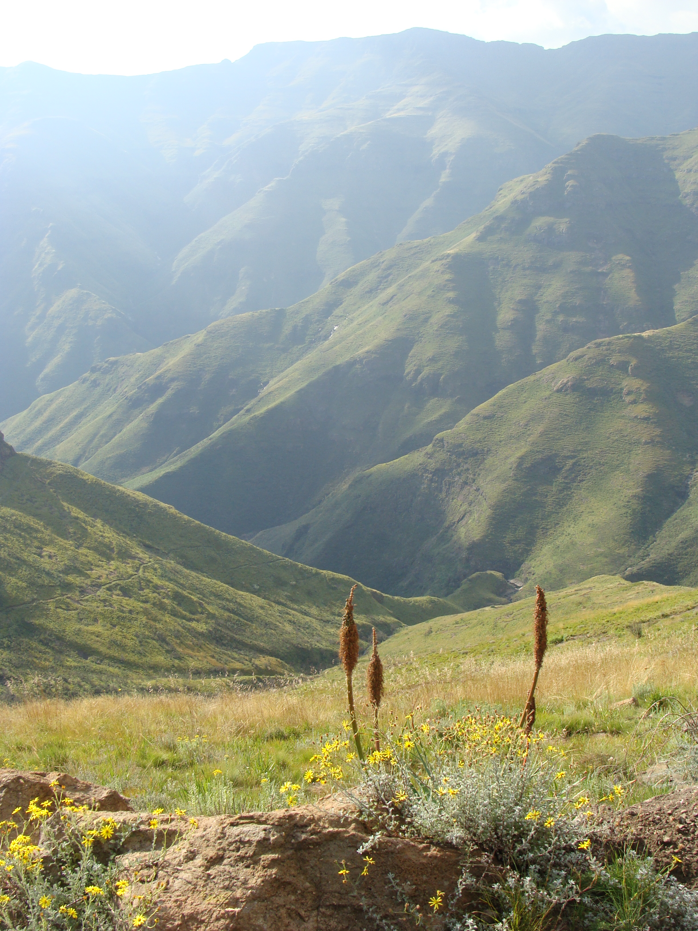 View overlooking the Ts'ehlanyane National Park.